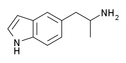 i drew this anyone can use it